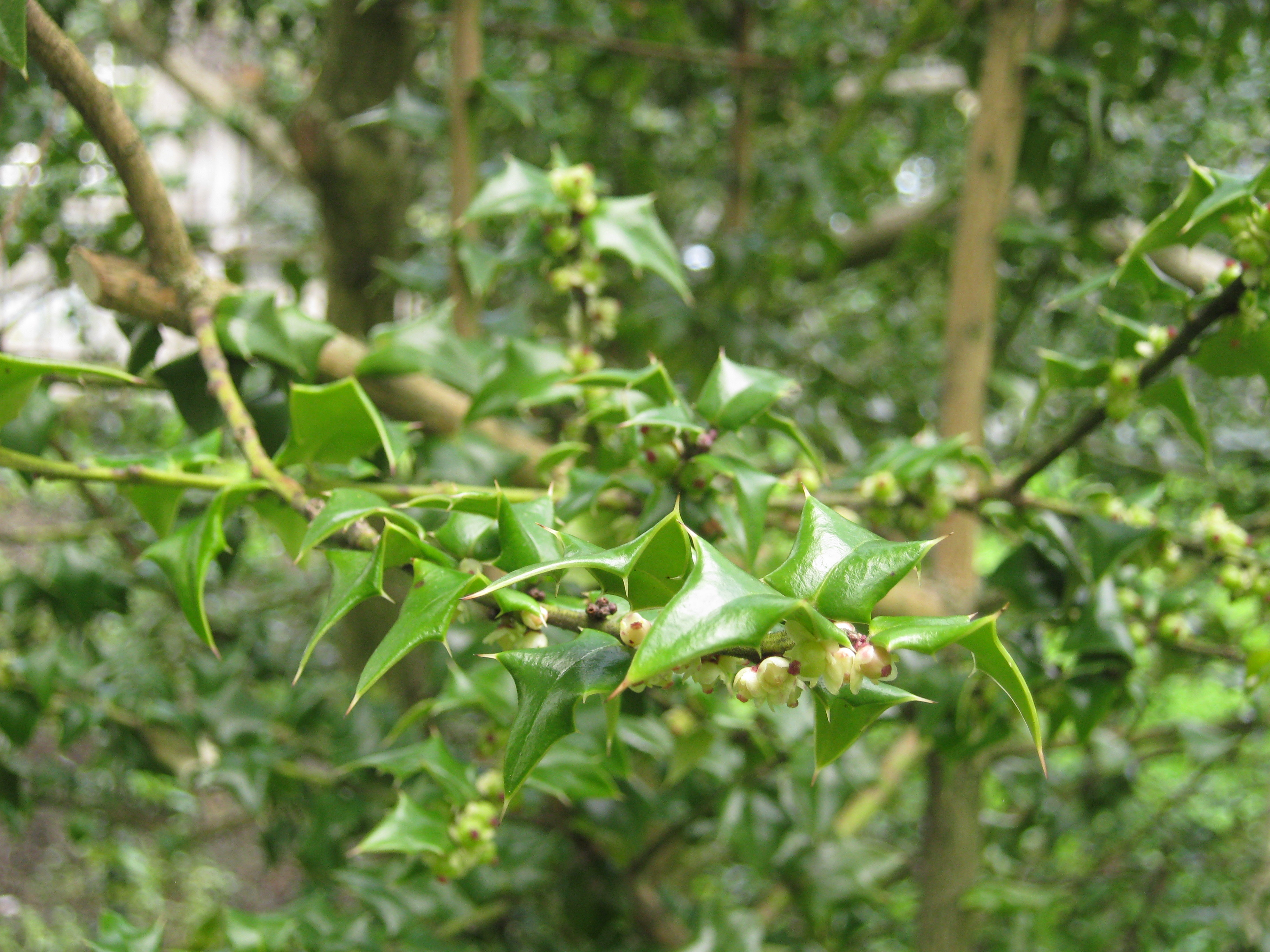 Close up of Ilex pernyi in spring, in botanical garden in Bergen, Norway